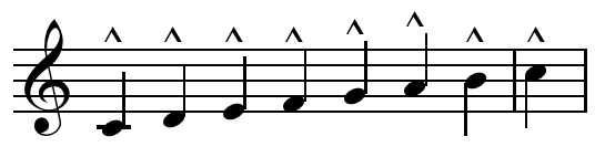 Diatonic scale on C, marcato articulation.